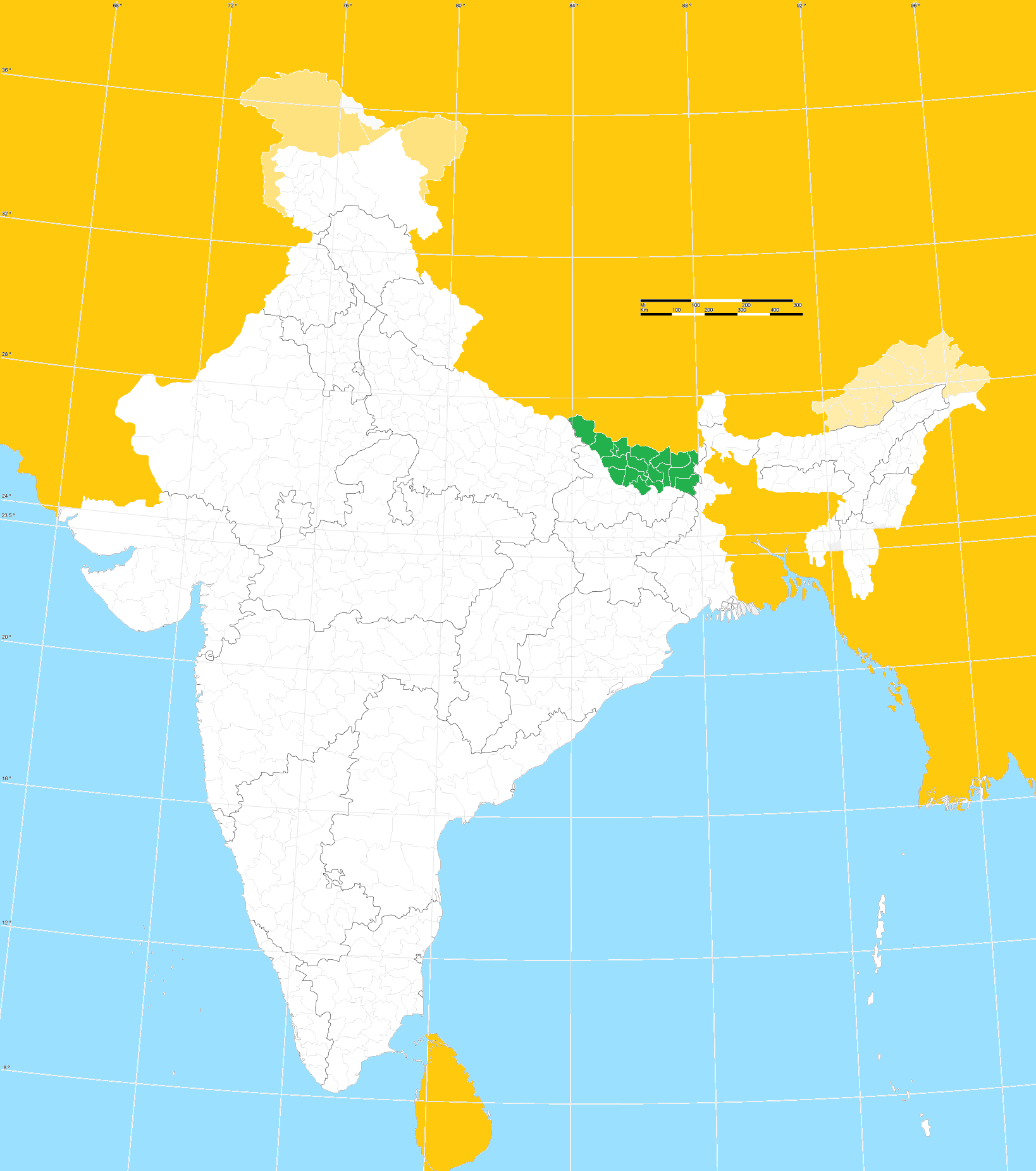 LOCATION OF Tirhut region in India